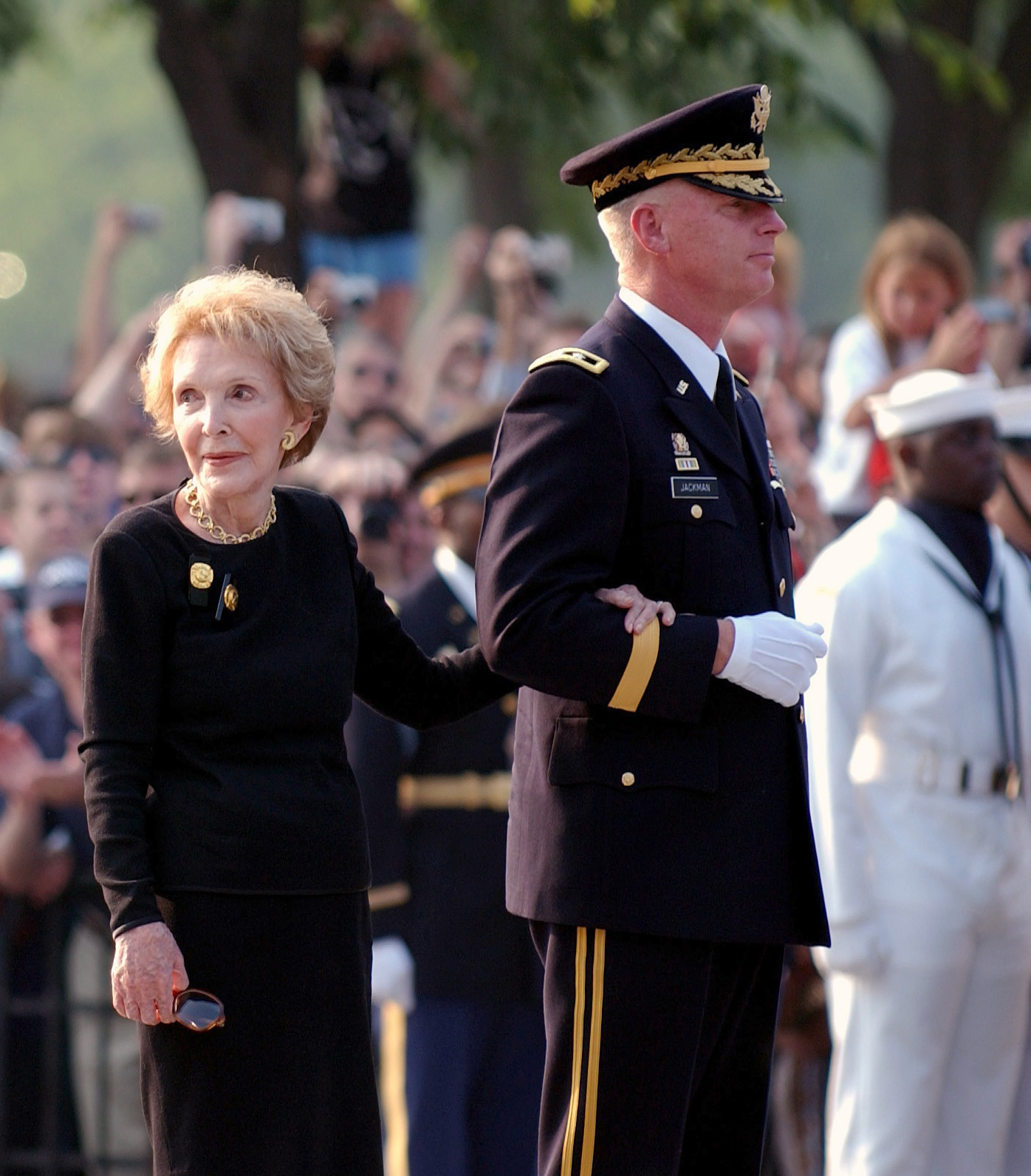 The former First Lady, Mrs. Nancy Reagan is escorted down Constitution Avenue by a member of the US Army (USA) 1st Infantry Division Old Guard, during the funeral procession for the 40th President of the United States Ronald Wilson Reagan in Washington DC.